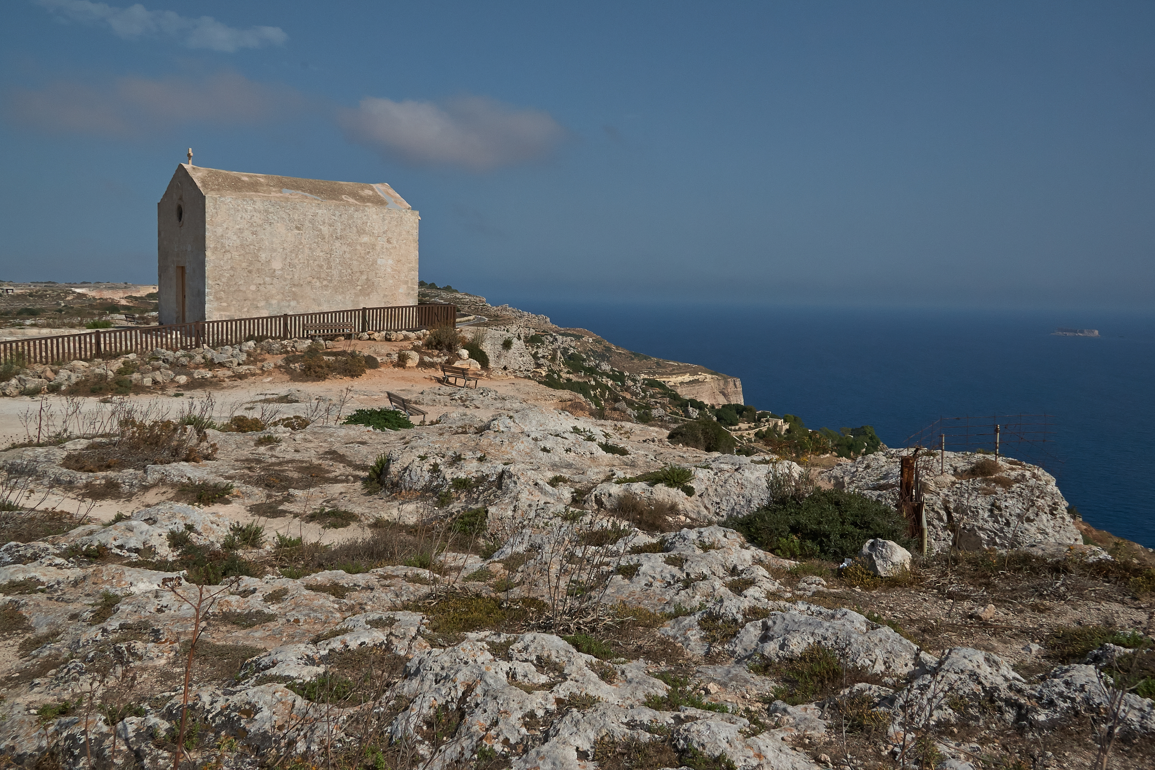 Ta' Dmejrek